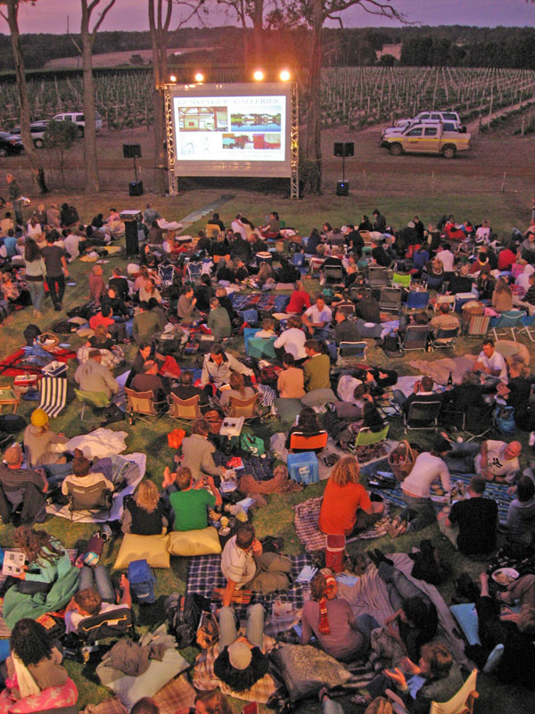 Tropfest short film festival at Howard Park and MadFish Wines, Margaret River, Western Australia.